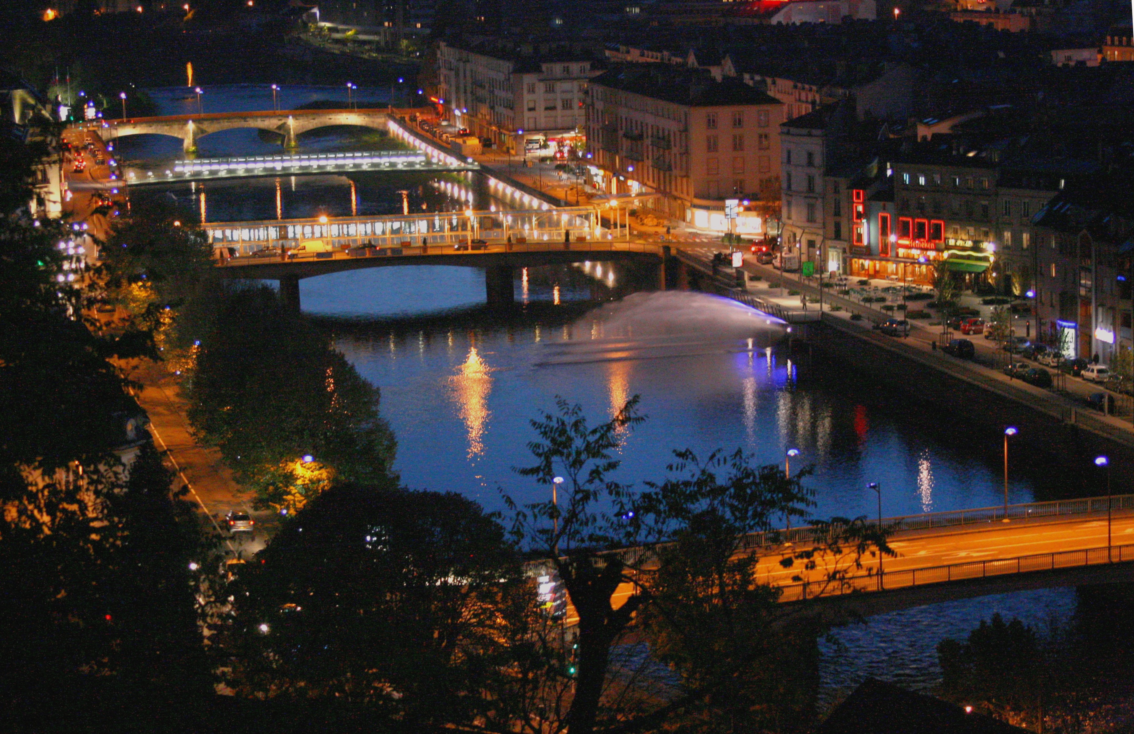 Epinal By Night.